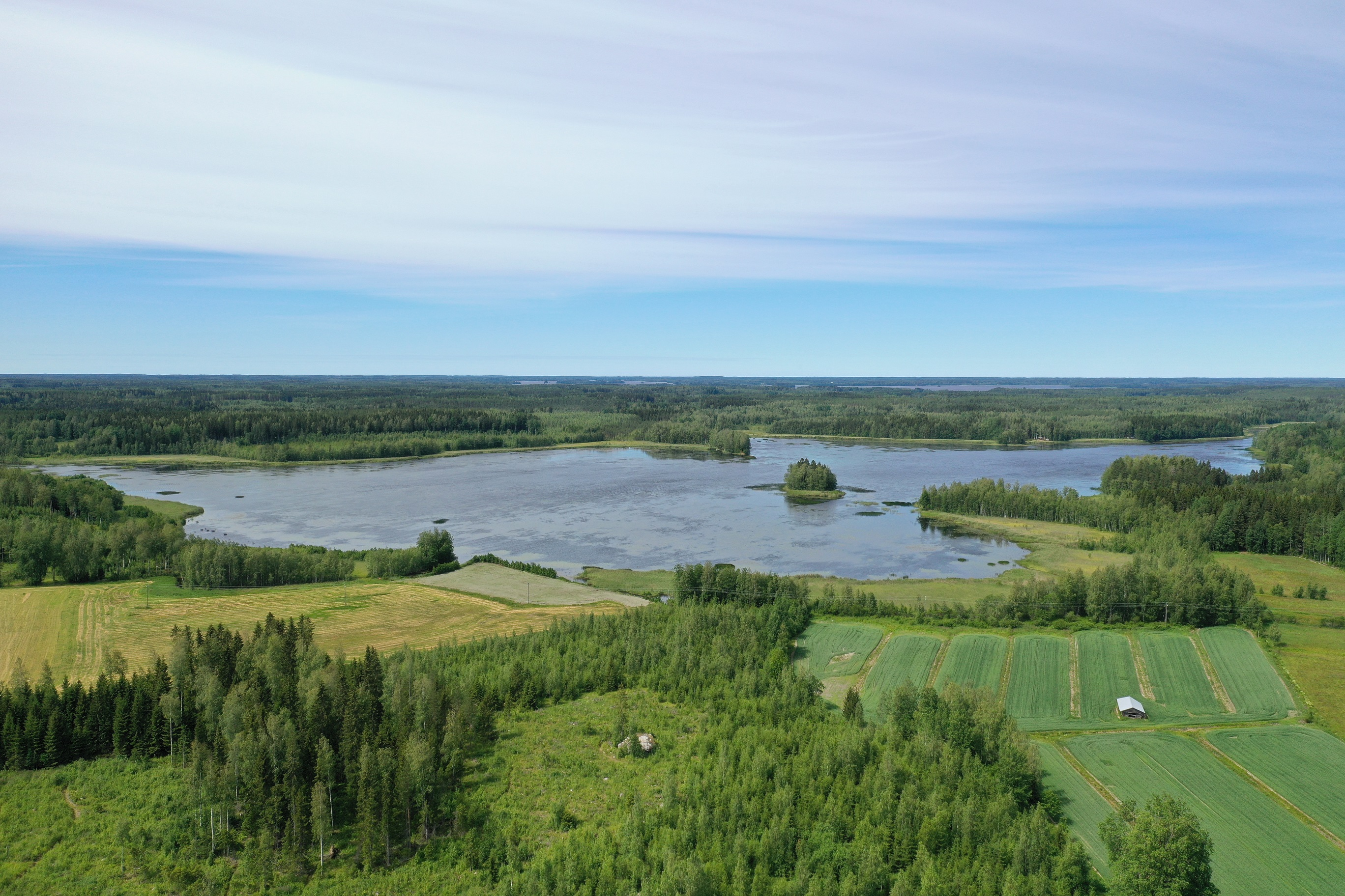 Lake Heinijärvi in Suodenniemi, Finland seen from southeast